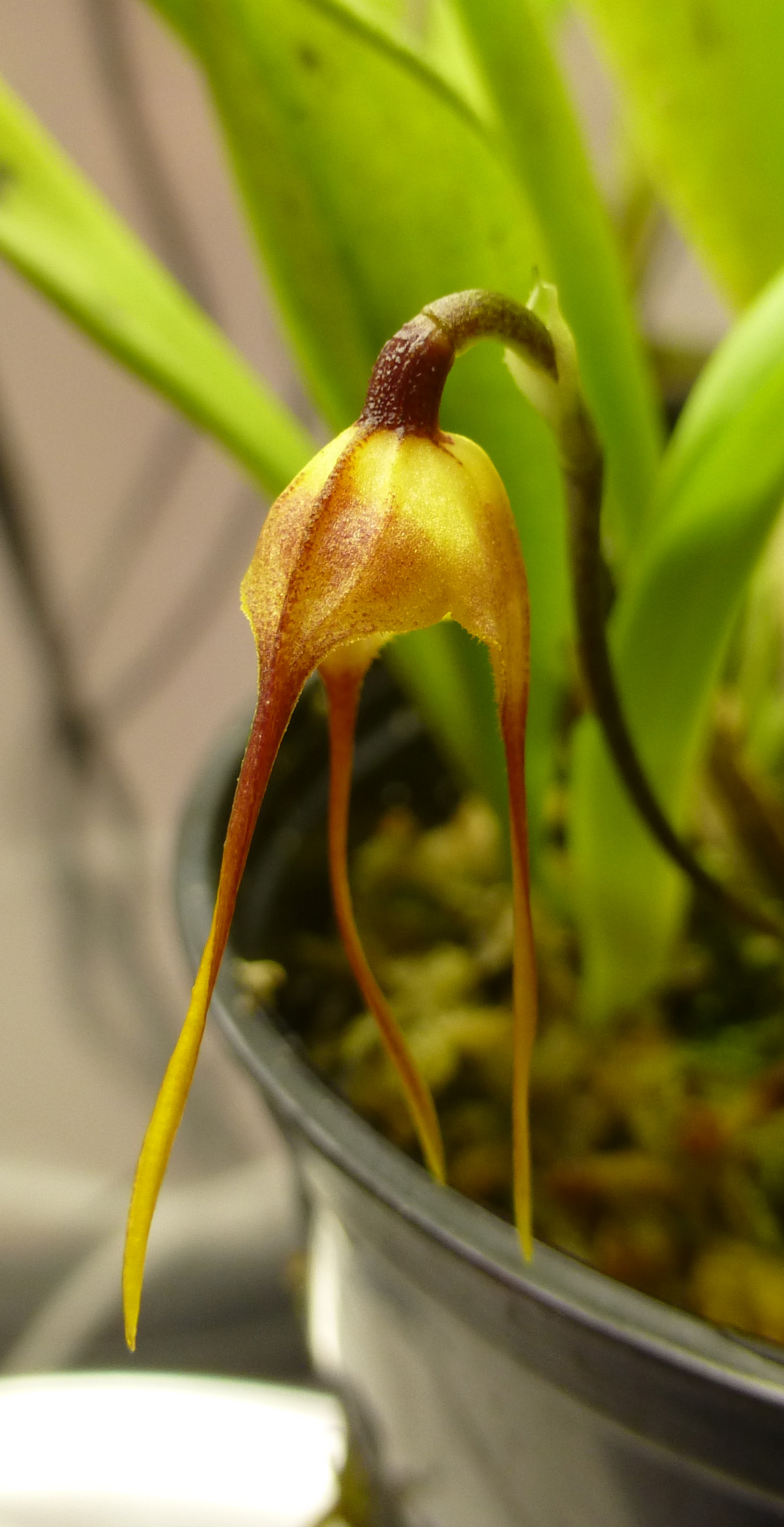 Profile of a Dracula olmosii bloom grown in a terrarium.